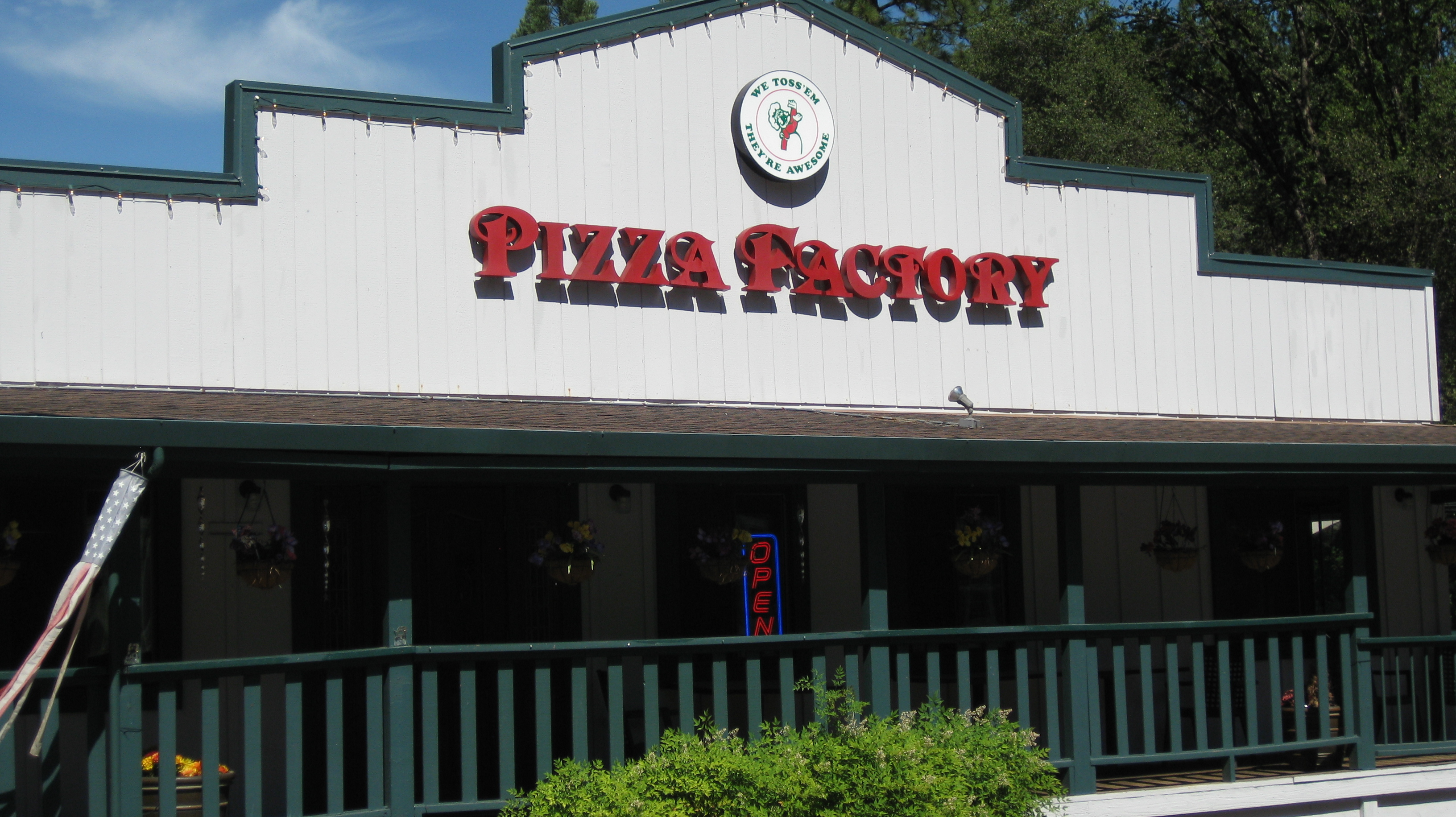 Pizza Factory: "We toss 'em, the're awesome", Groveland, CA